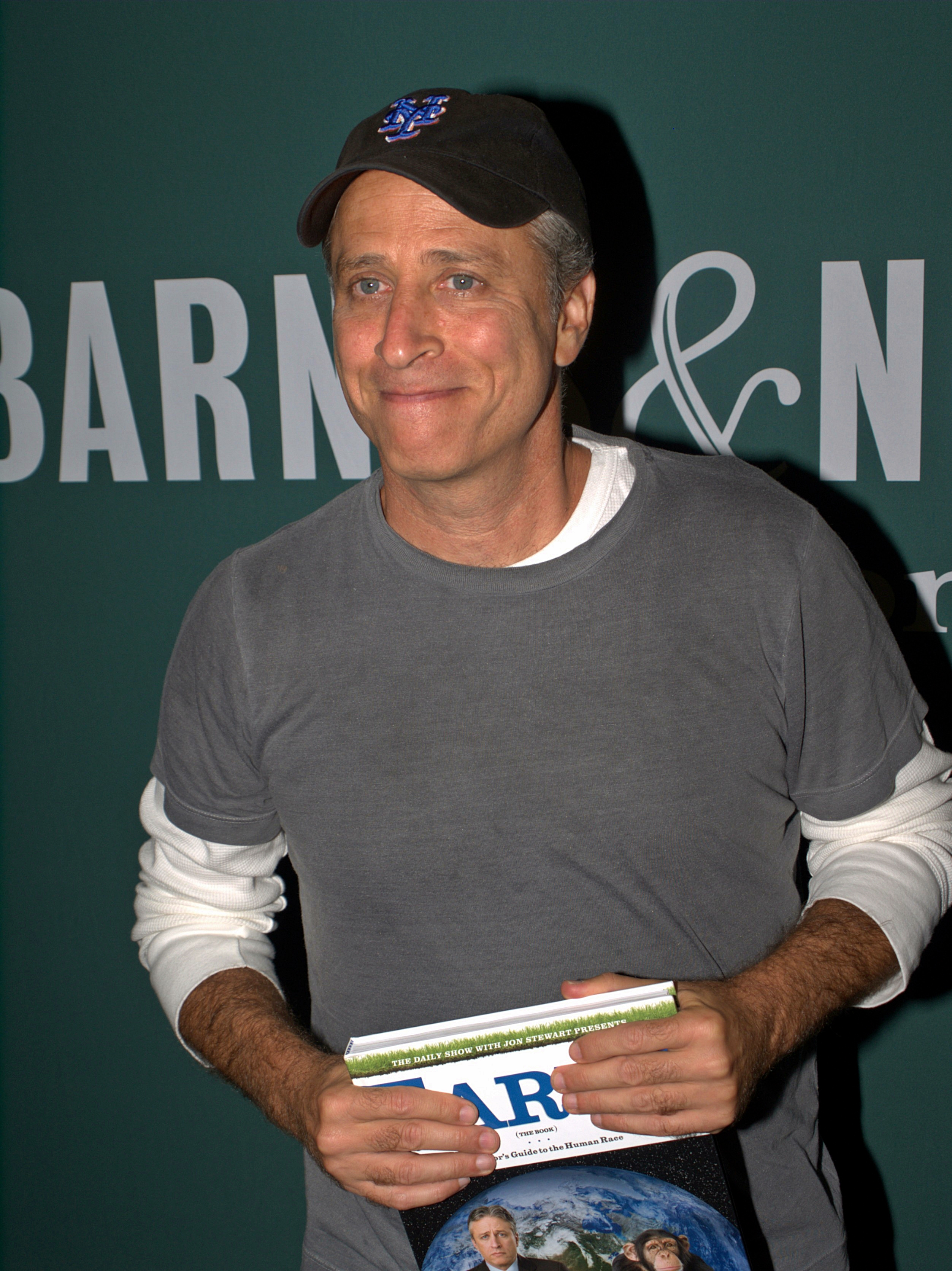 Jon Stewart at Barnes & Noble Union Square for the launch of Narf (The Book), the 2010 book from the writers of The Daily Show